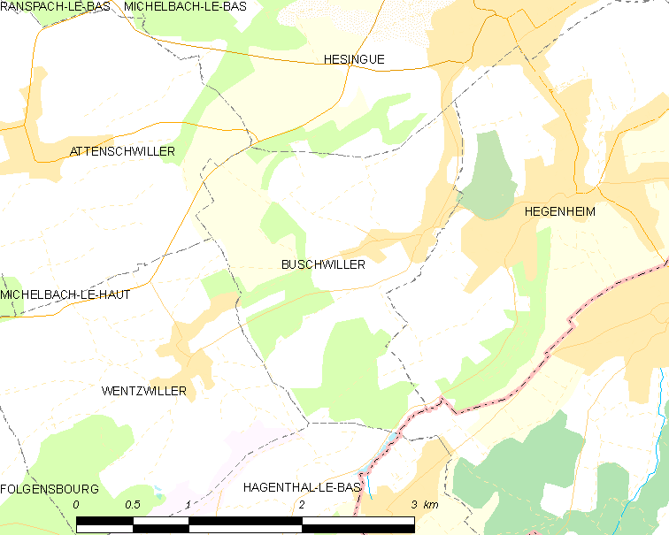 Map of French municipality